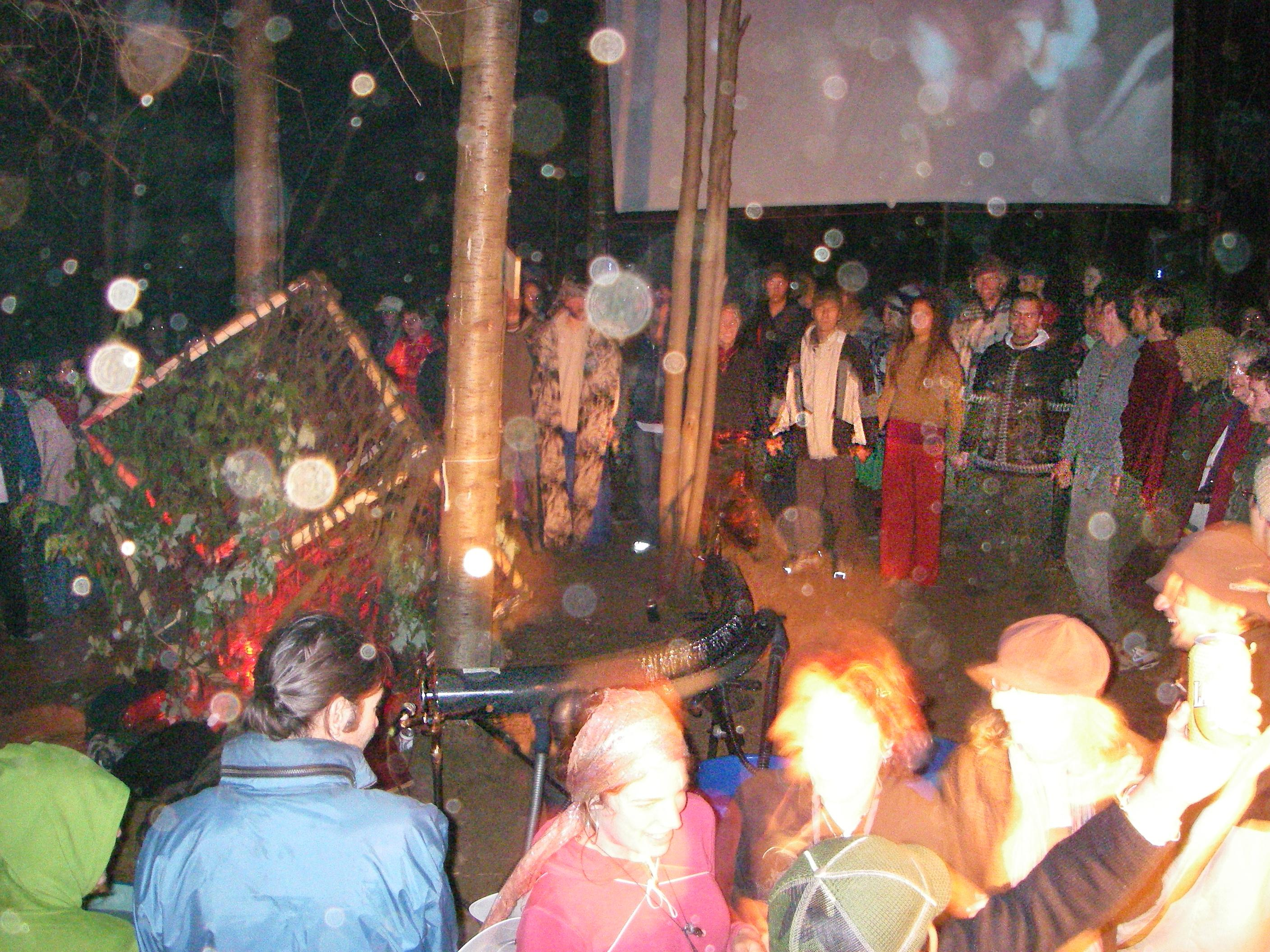 Picture of "OM Circle" in which people were holding hands and standing in a circle around Nessie the hydraulophone